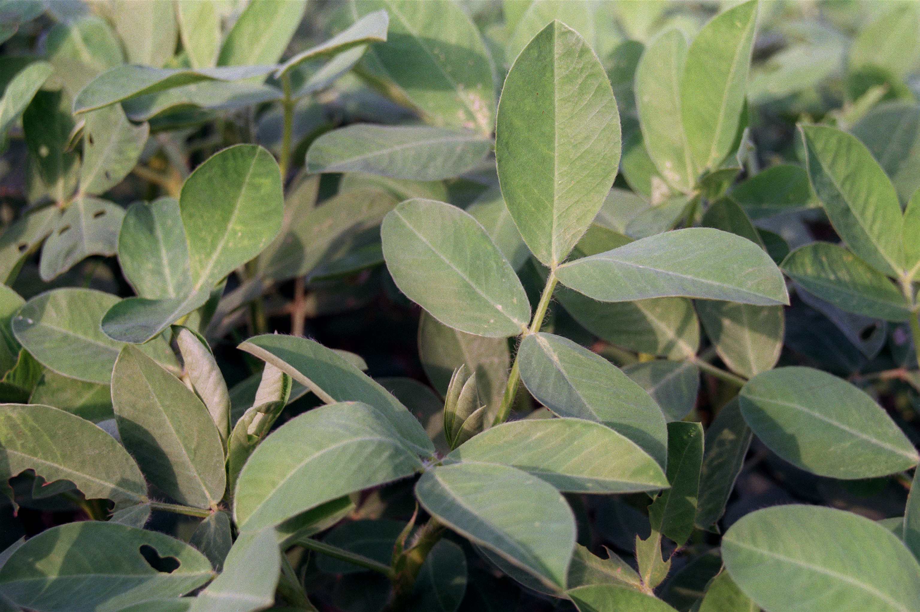 The peanut or Badam (in Bengali) leaves of Dhulagarh, Howrah.